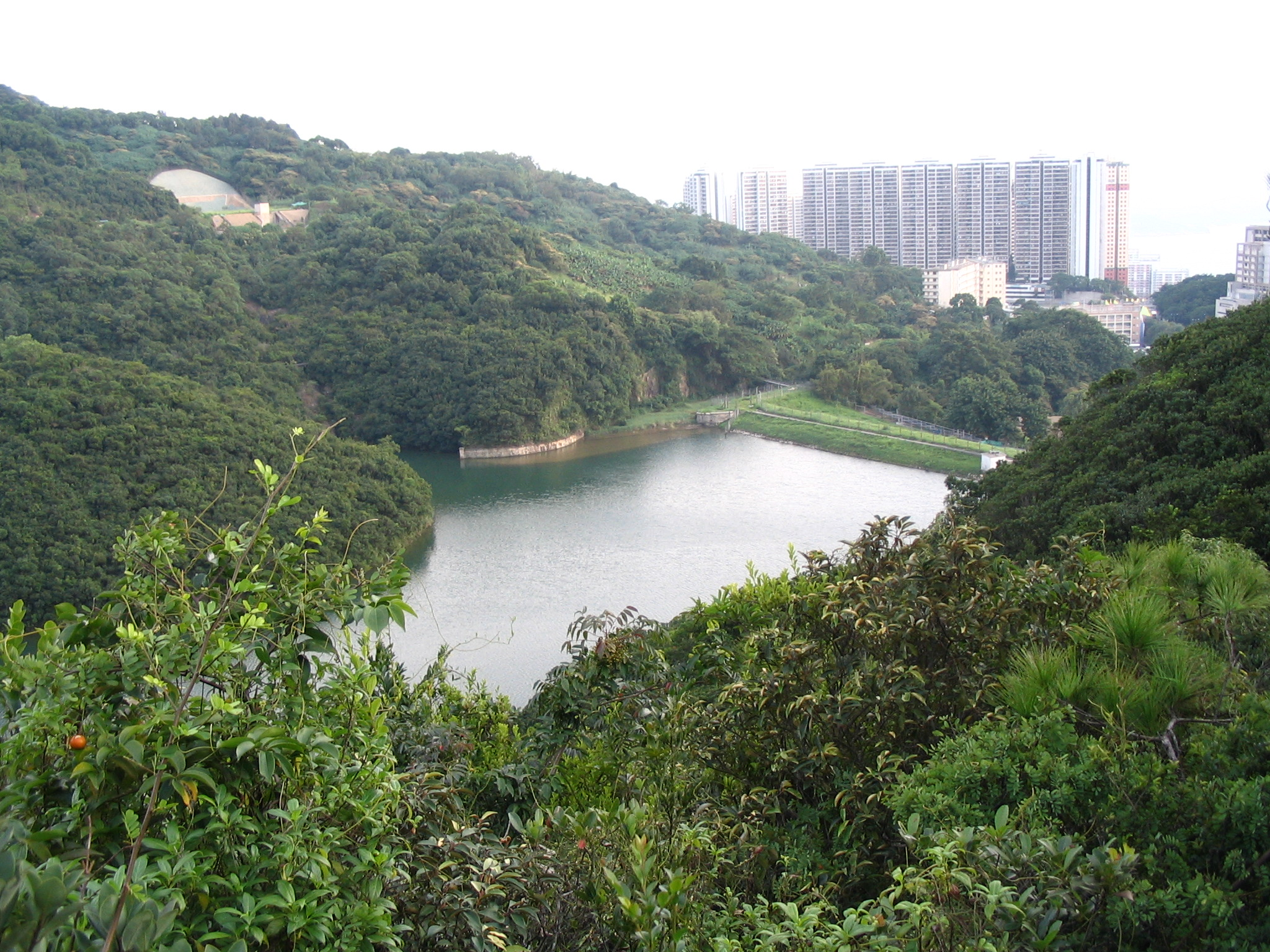 Photo of Pok Fu Lam Reservoir